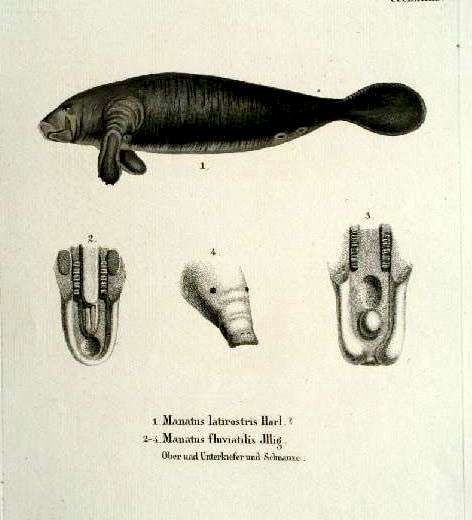 Manatus latirostris Harl, Manatus fluviatilis Jllg. Fossilworks PaleoDB link: Manatus latirostris equals Trichechus manatus latirostris Note: Manatus fluviatilis ILLIGER, Abhandl. d. Kön. Akad. d. Wissens. in Berlin, 1809-1811, p. 110. This name, given without diagnosis, appears with M. americanus in a list of South American mammals and is a nomen nudum.[1]